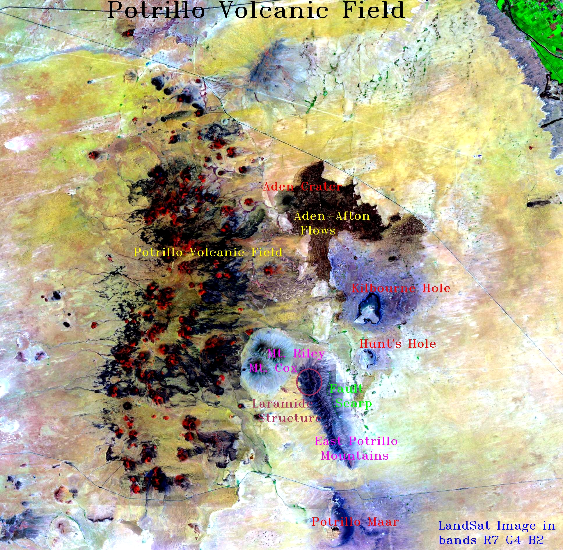 Landsat image of Potrillo Volcanic Field — a volcanic field in northern Mexico and southern New Mexico. False Color, Bands R7, G4, B2